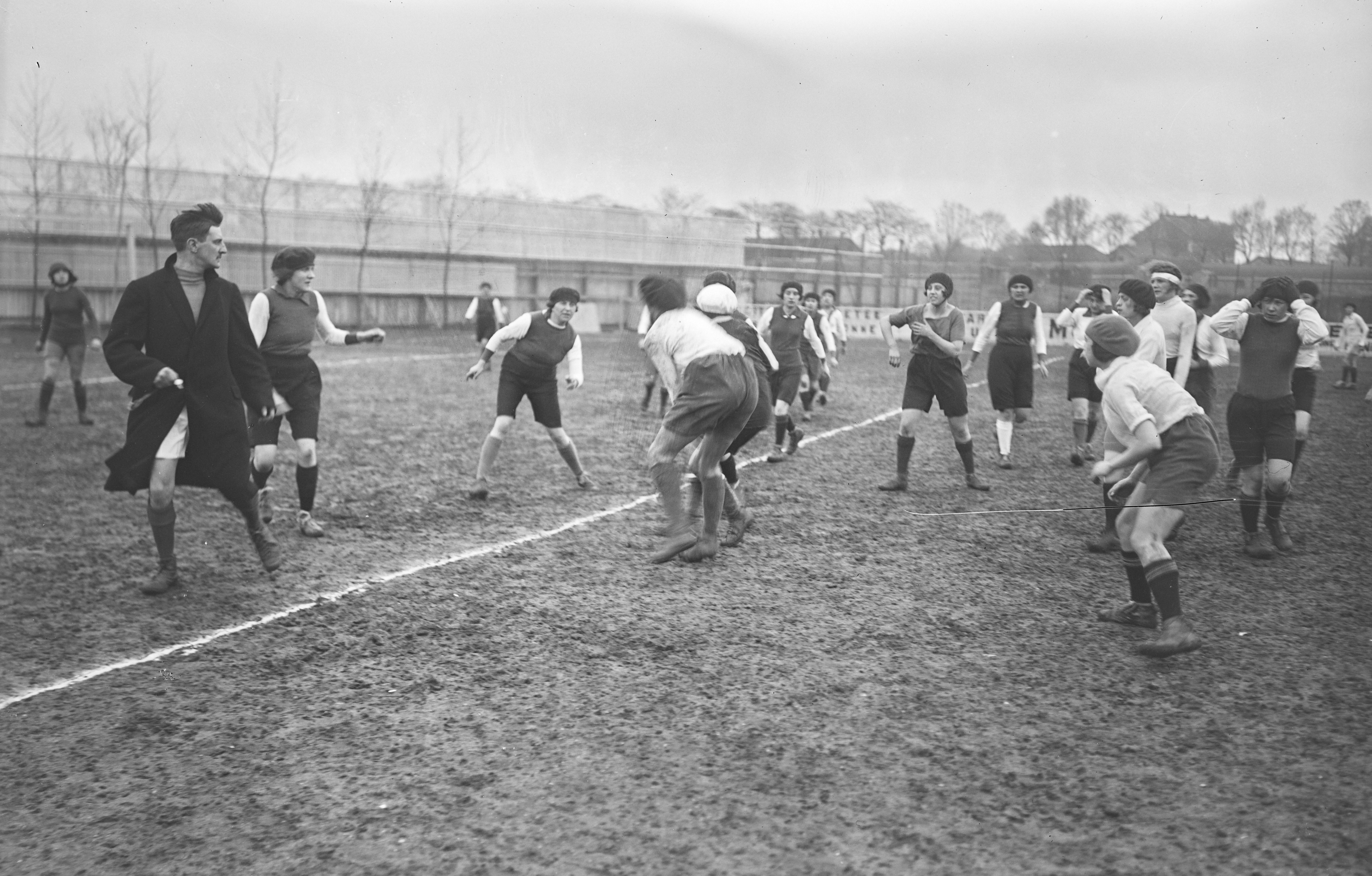 Women's rugby union match at Stade Élisabeth in Paris, France. Original description:Stade Elysabeth [i.e. Elisabeth], 5/3/22, rugby [féminin] : [photographie de presse] / [Agence Rol]